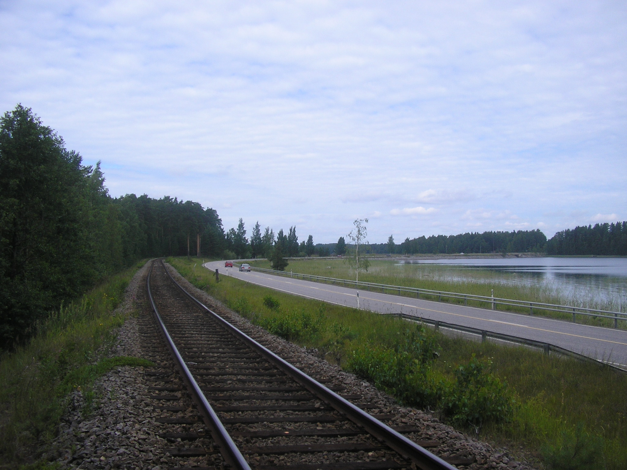 Huutokoski–Parikkala railway and National road 14 in Punkaharju, Finland